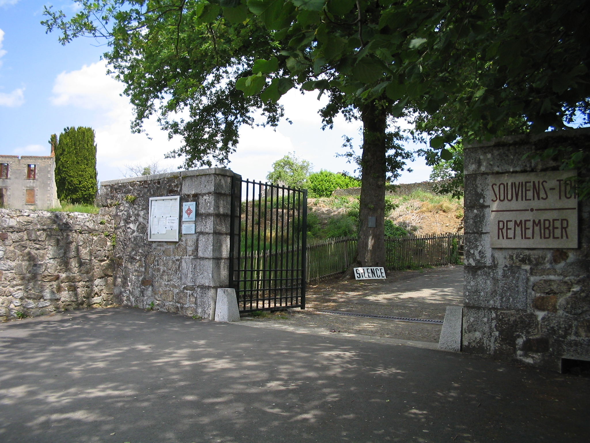 The entrance to Oradour-sur-Glane. This is a photograph which I took during a visit to the French village Oradour-sur-Glane on June 11 2004, exactly 60 years after its destruction by the German army during World War II.